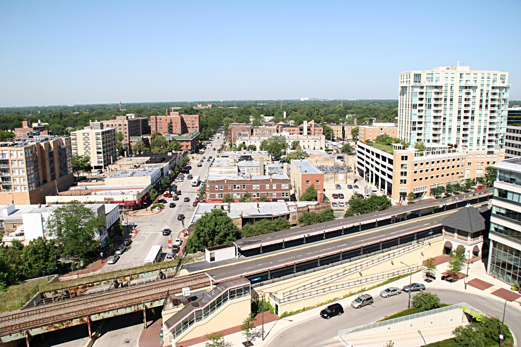 Downtown Evanston, Ill., looking West along Davis St. from the new parking garage at Benson. Visible are the shops on Davis St., the Metra station, and in the distance, Evanston Township High School and the Old Orchard shopping center.